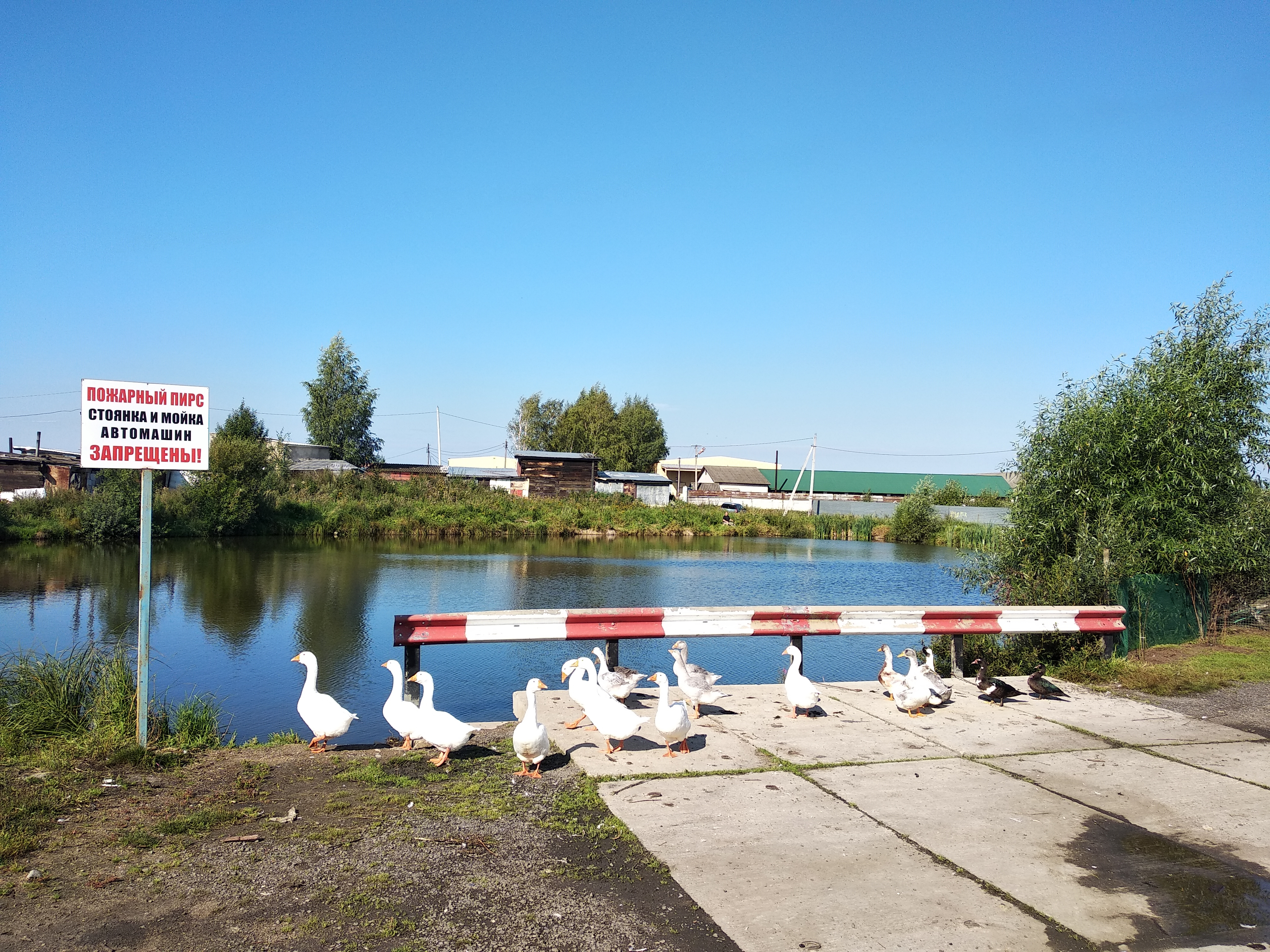 Pond and gooses in Shurskol village (Yaroslavl Oblast, Russia)